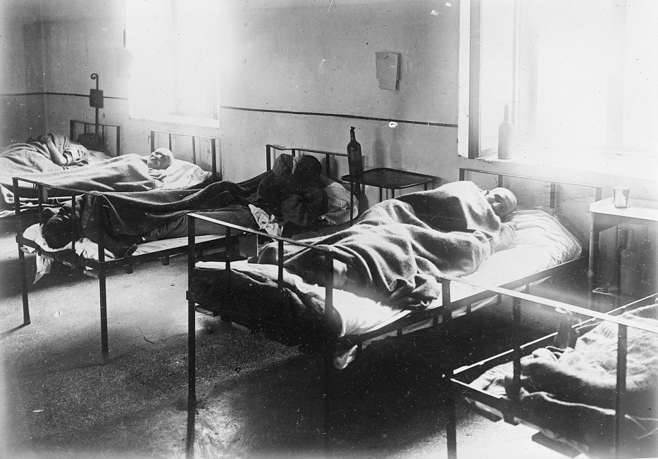 Typhus patients two in a bed. Impromptu typhus hospital equipped by the American Red Cross near Bucharest. The beds are cots of Army type, manufactured in Philadelphia. At the time this photograph was taken the hospital was so crowded that the patients were being put two in a bed head to foot